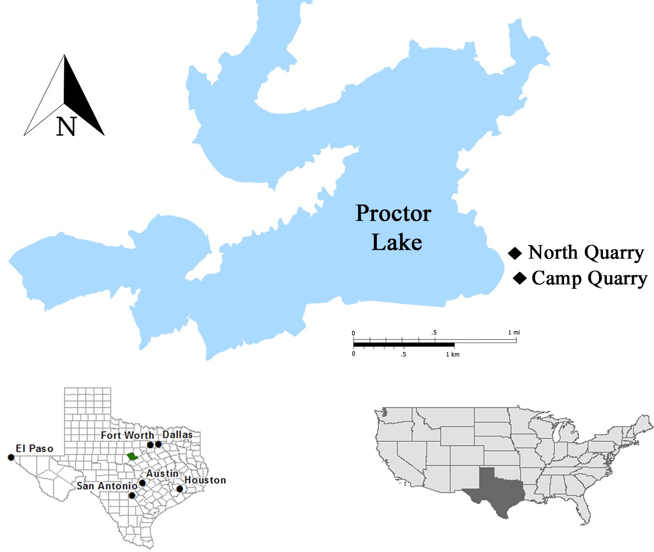 Map of study area. Map of Proctor Lake, Texas located in Comanche County (green) with marked locations of the two quarries (Camp Quarry and North Quarry) where ornithopod fossils were collected.